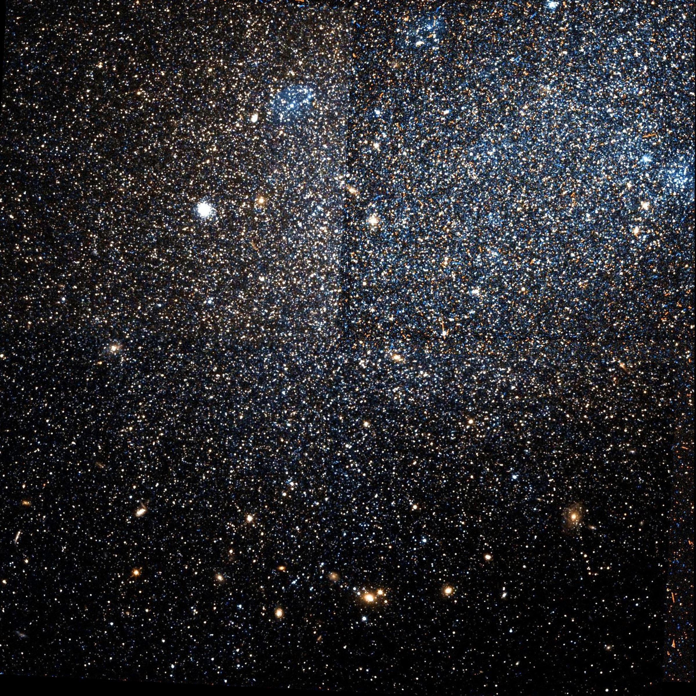 Sextans B dwarf galaxy by Hubble space telescope